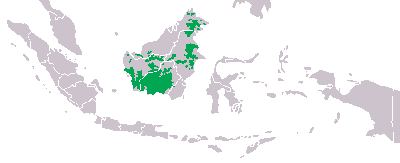 Bornean Orangutan (Pongo pygmaeus) range map, modification of File:Mapa distribuicao pongo.png